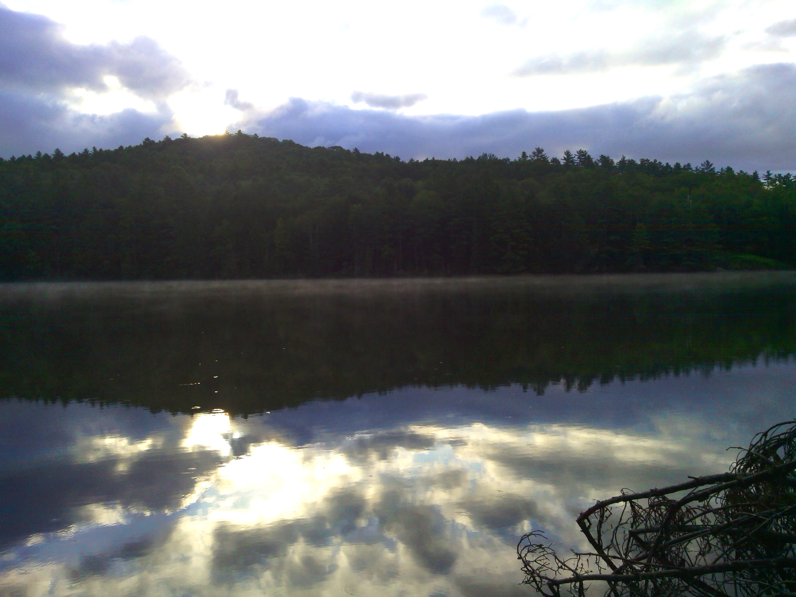 Self-taken photograph of an inlet in the Cumerford Reservoir, taken but a short distance from the intersection of Cumerford Dam Road and Valley View Road.